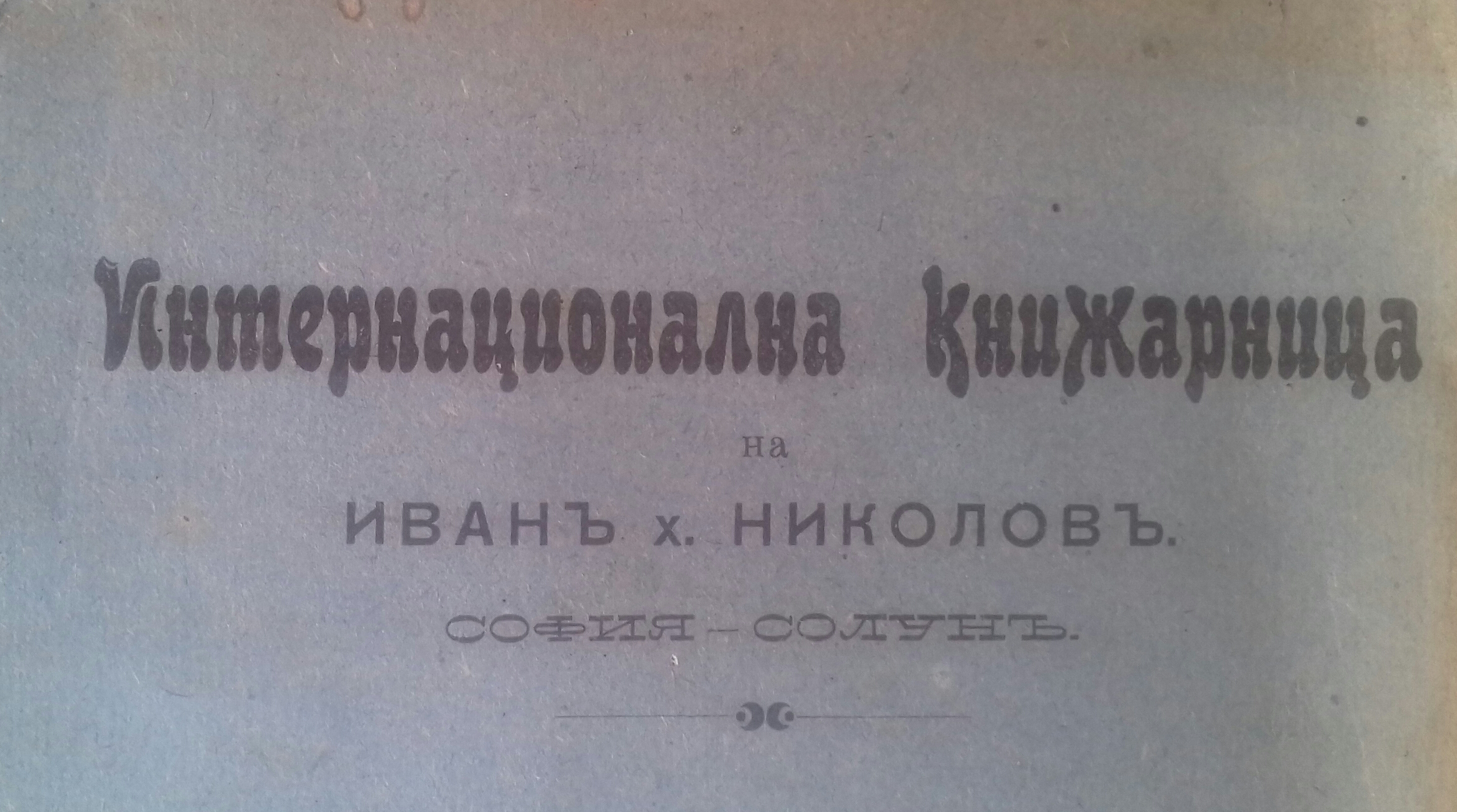 Ivan Hadzhinikolov's Bookstore Advertisement